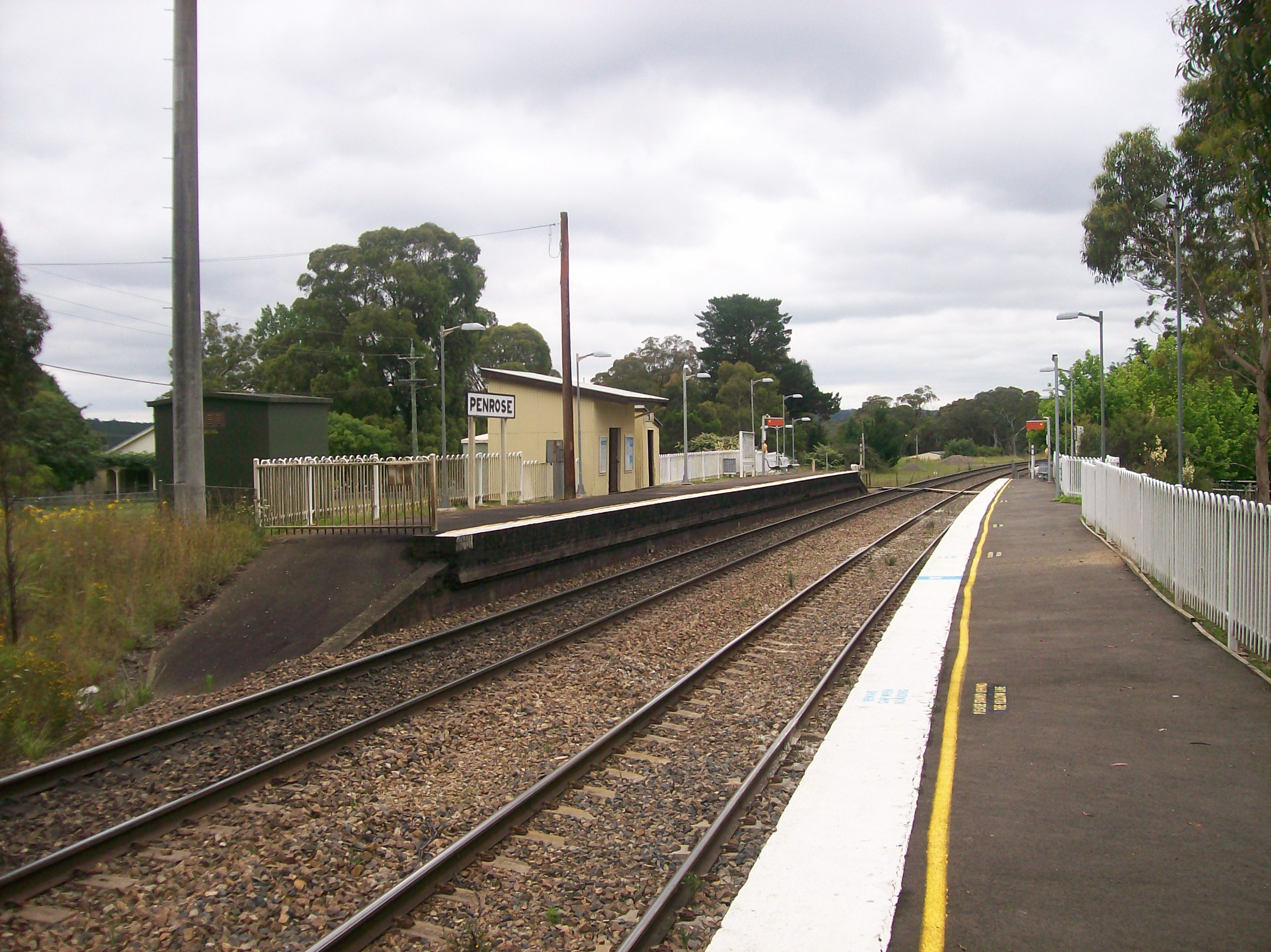 Penrose railway station